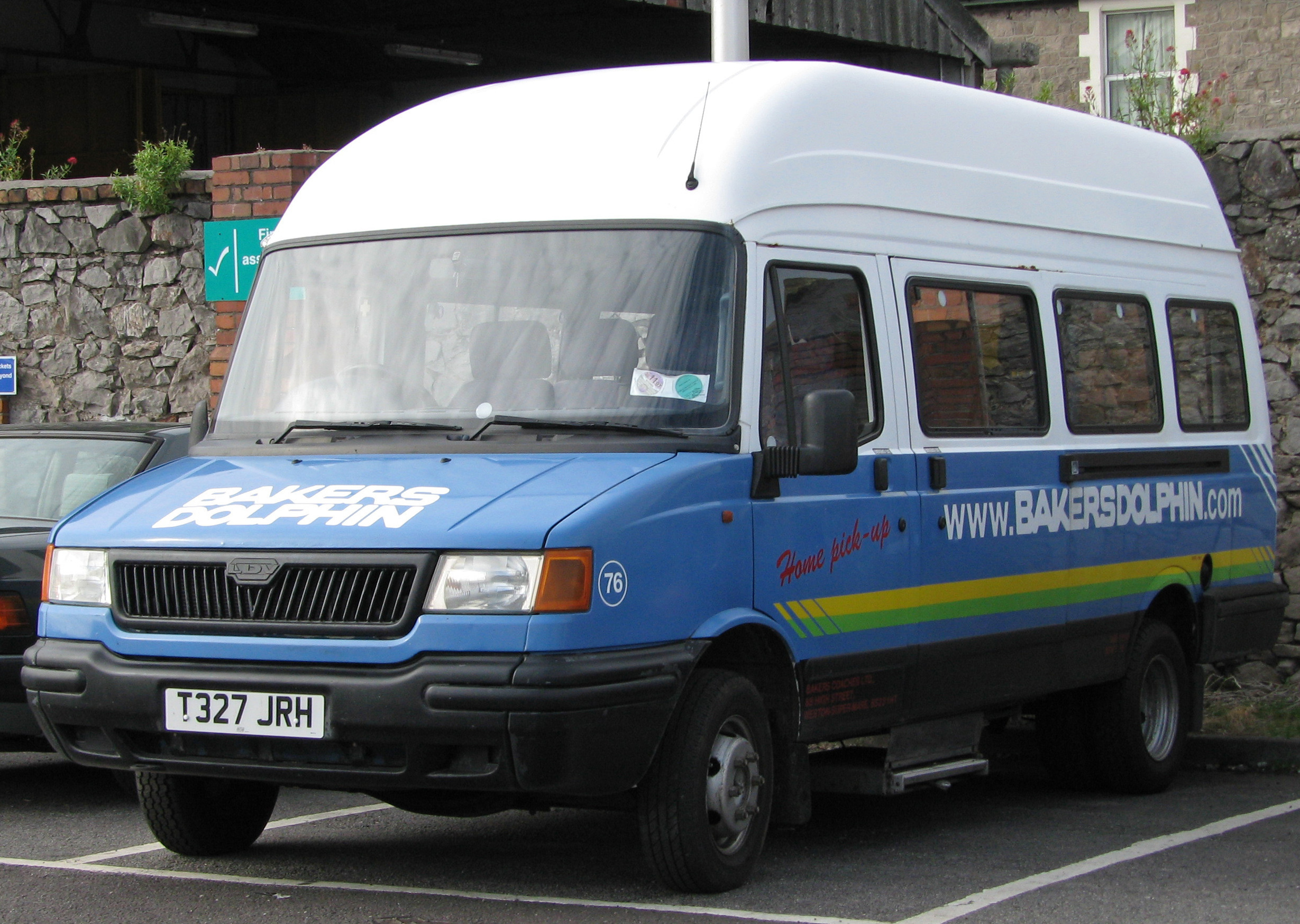 T327 JRH